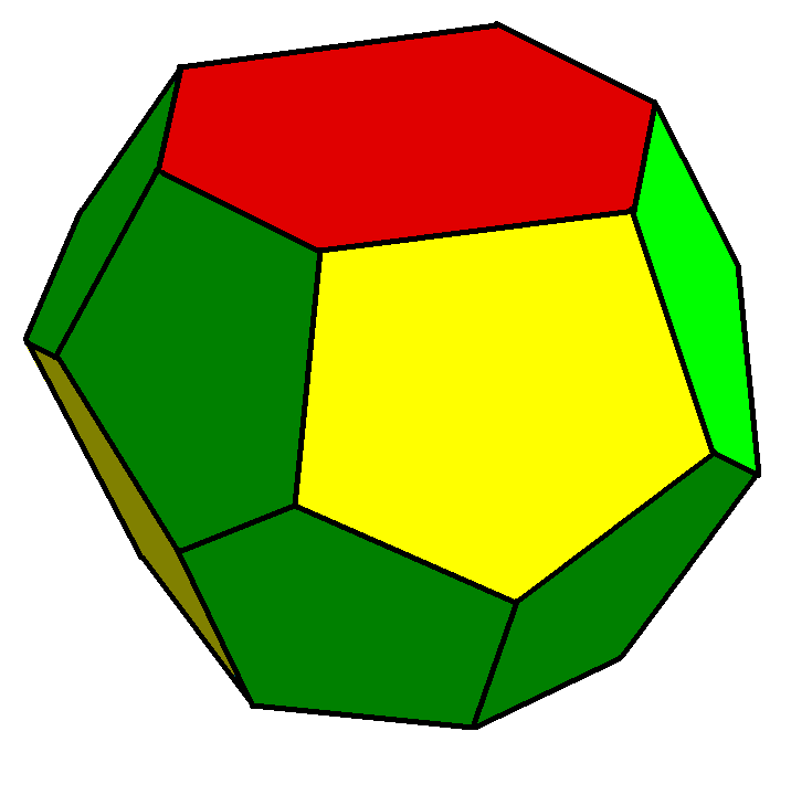 Space-filling tetrakaidecahedron polyhedron image Source data Created from vertices listed at: [1] Obj format: v 3.14980 3.70039 5 v -3.14980 3.70039 5 v -5 0 5 v -3.14980 -3.70039 5 v 3.14980 -3.70039 5 v 5 0 5 v 4.19974 5.80026 0.80026 v -4.19974 5.80026 0.80026 v -6.85020 0 1.29961 v -4.19974 -5.80026 0.80026 v 4.19974 -5.80026 0.80026 v 6.85020 0 1.29961 v 5.80026 4.19974 -0.80026 v 0 6.85020 -1.29961 v -5.80026 4.19974 -0.80026 v -5.80026 -4.19974 -0.80026 v 0 -6.85020 -1.29961 v 5.80026 -4.19974 -0.80026 v 3.70039 3.14980 -5 v 0 5 -5 v -3.70039 3.14980 -5 v -3.70039 -3.14980 -5 v 0 -5 -5 v 3.70039 -3.14980 -5 g hexagons f 1 2 3 4 5 6 f 19 20 21 22 23 24 g pentagons f 1 2 8 14 7 f 2 3 9 15 8 f 3 4 10 16 9 f 4 5 11 17 10 f 5 6 12 18 11 f 6 1 7 13 12 f 19 20 14 7 13 f 20 21 15 8 14 f 21 22 16 9 15 f 22 23 17 10 16 f 23 24 18 11 17 f 24 19 13 12 18